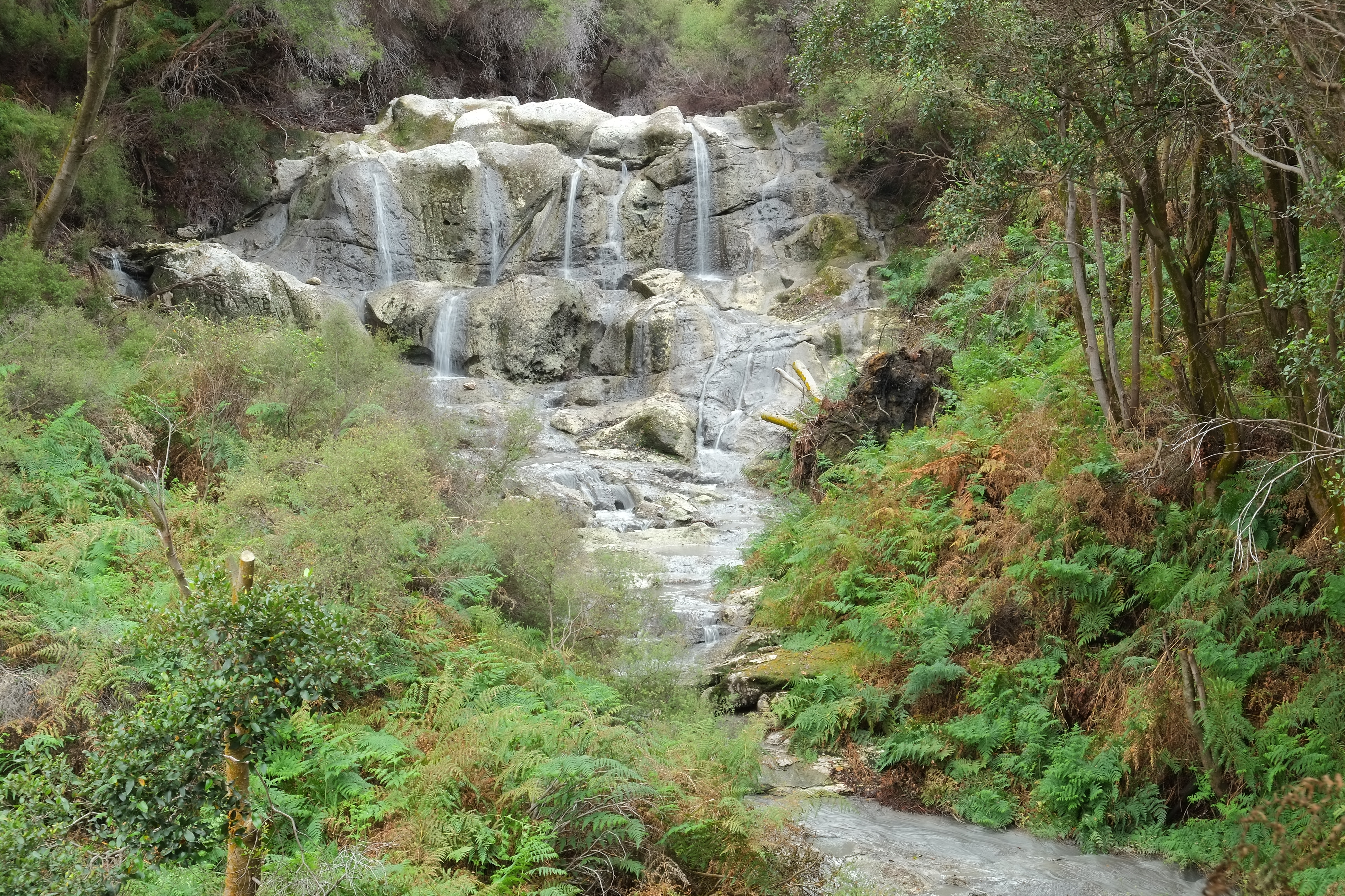 Kakahi Falls (hot waterfall) in Hell's Gate thermal area (Tikitere)